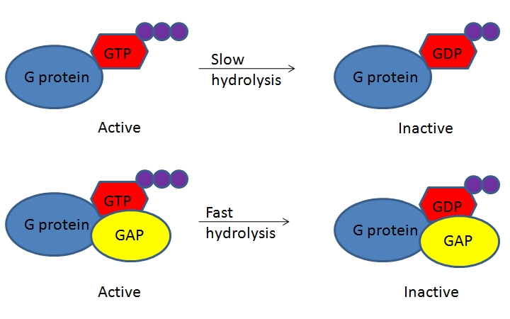 In the absence of GAP, G proteins have slow hydrolytic activity. However, in the presence of GAP, G proteins hydrolyze GTP quickly.